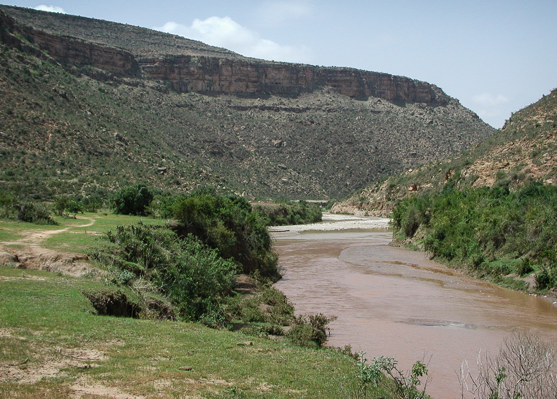 Shugua shugui